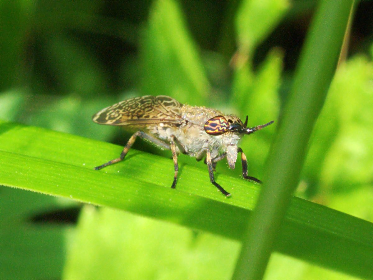 Name: Haematopota pluvialis, female. Family: Tabanidae. Location: Münster, NRW, Germany